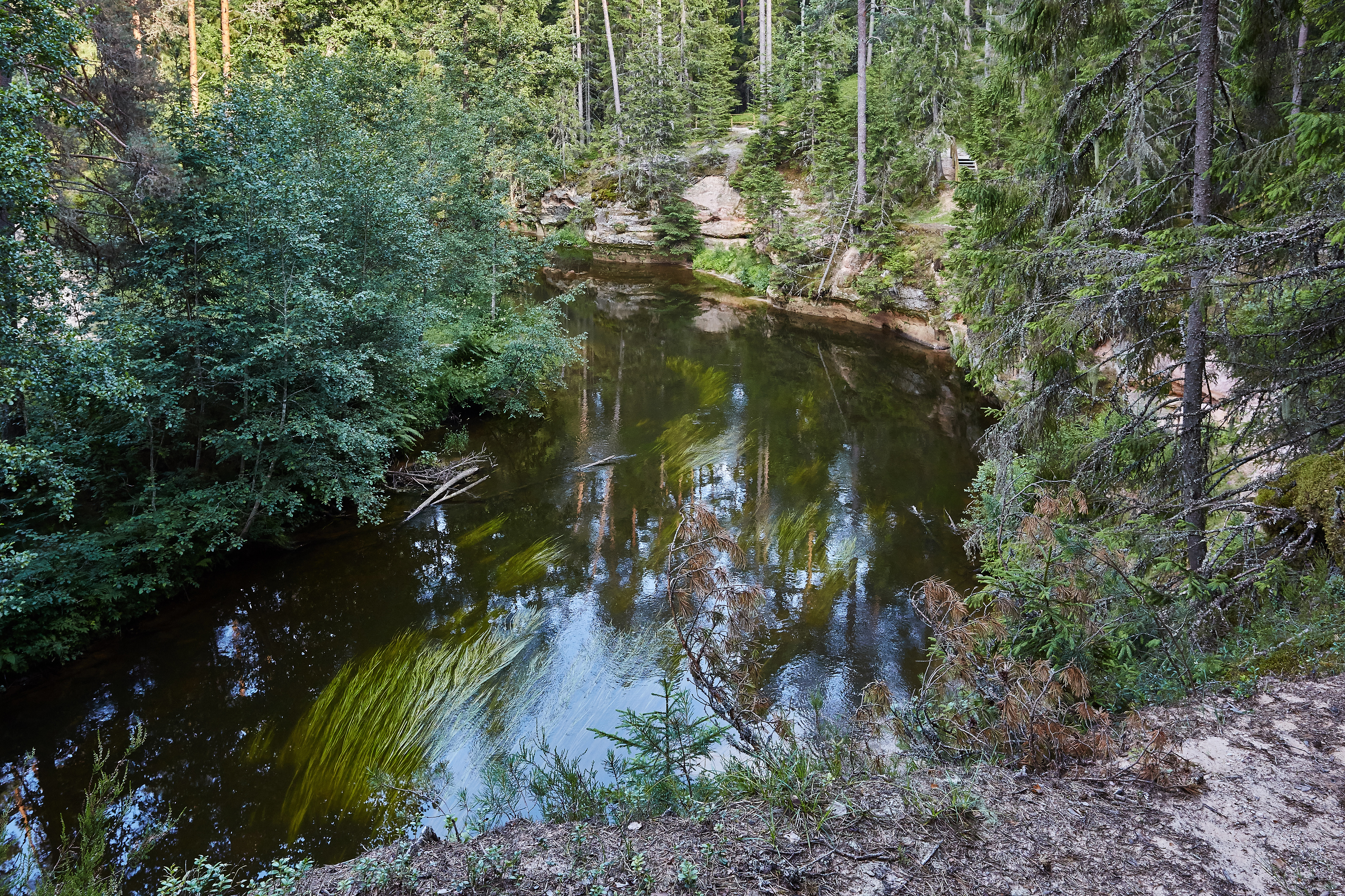 Ahja river near Devonian sandstone outcrops called "Väike Taevaskoda", Southeastern Estonia.